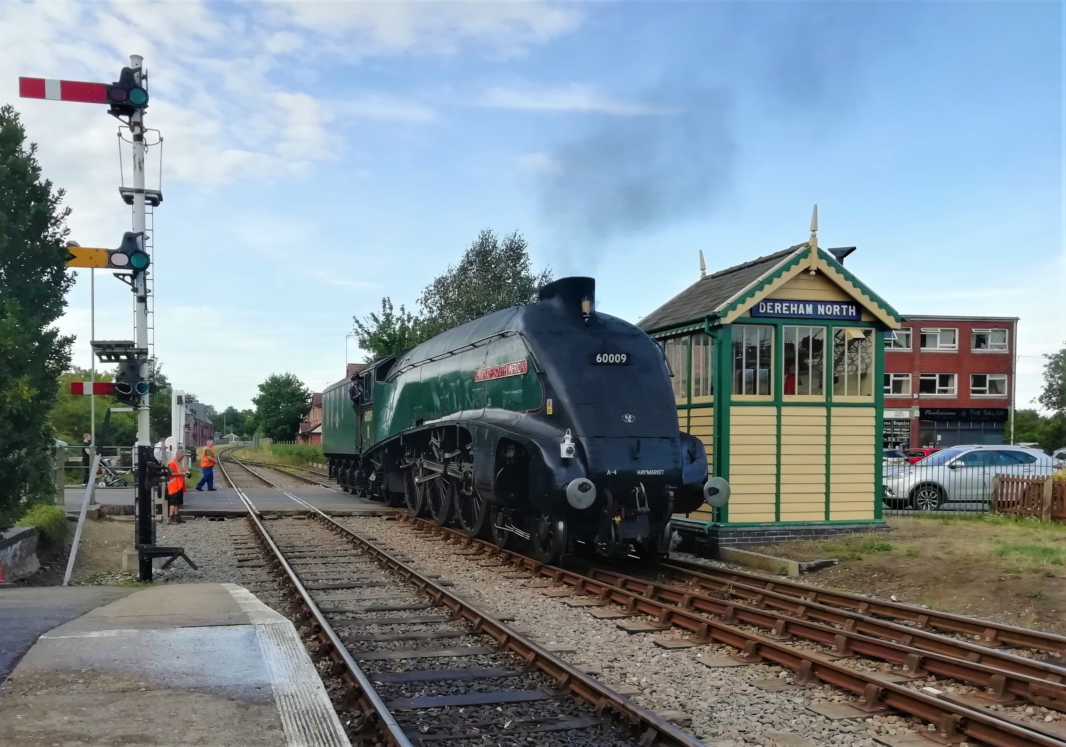 The A4 4-6-2 passed over Norwich Road level crossing, passing Dereham North signal box, in late August 2019.